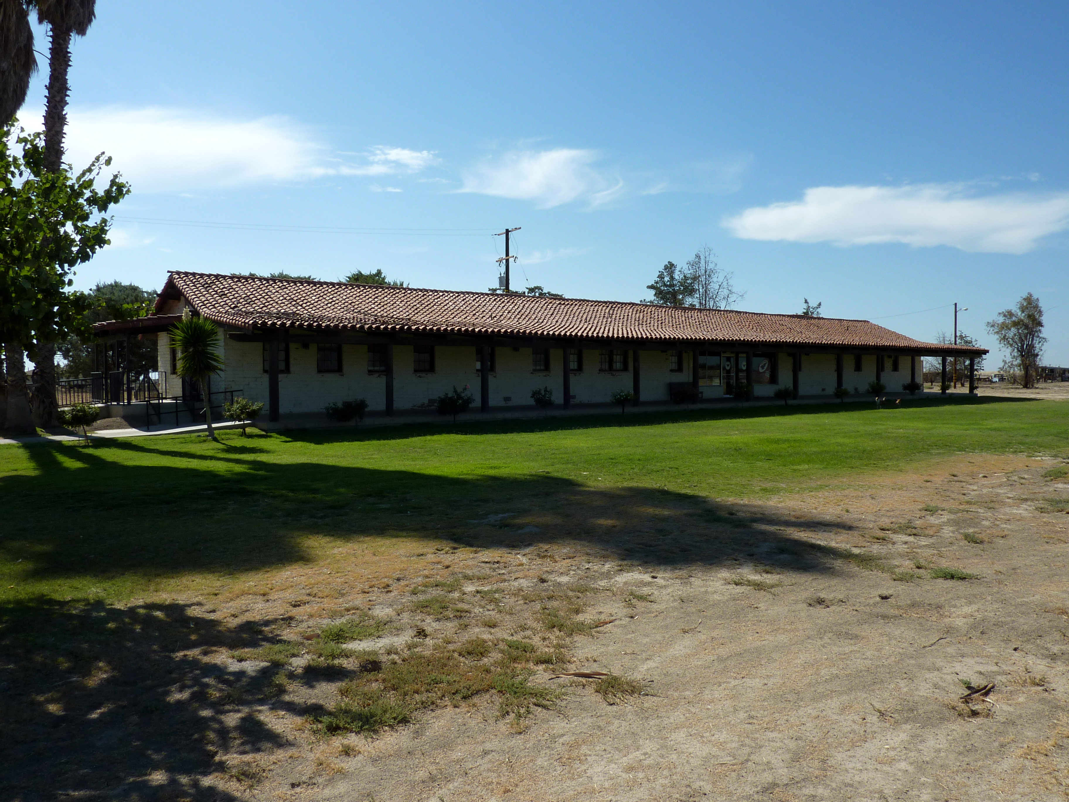 Reuther Hall at The Forty Acres — in Delano, California. The hall (built 1968-69) was the first headquarters of the United Farm Workers labor union, founded by César Chávez. On the National Register of Historic Places in Kern County, and a U.S. National Historic Landmark District contributing property.